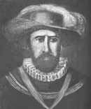 Nicolás de Ovando, Spanish governor of Hispaniola